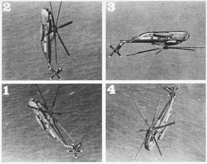 A Sikorsky CH-53A Sea Stallion helicopter of the U.S. Marine Corps performing a looping in 1960s.